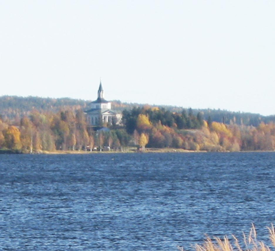 church